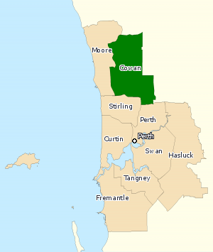 This image incorporates data that is: © Commonwealth of Australia (Australian Electoral Commission) 2009 Division of Cowan 2010